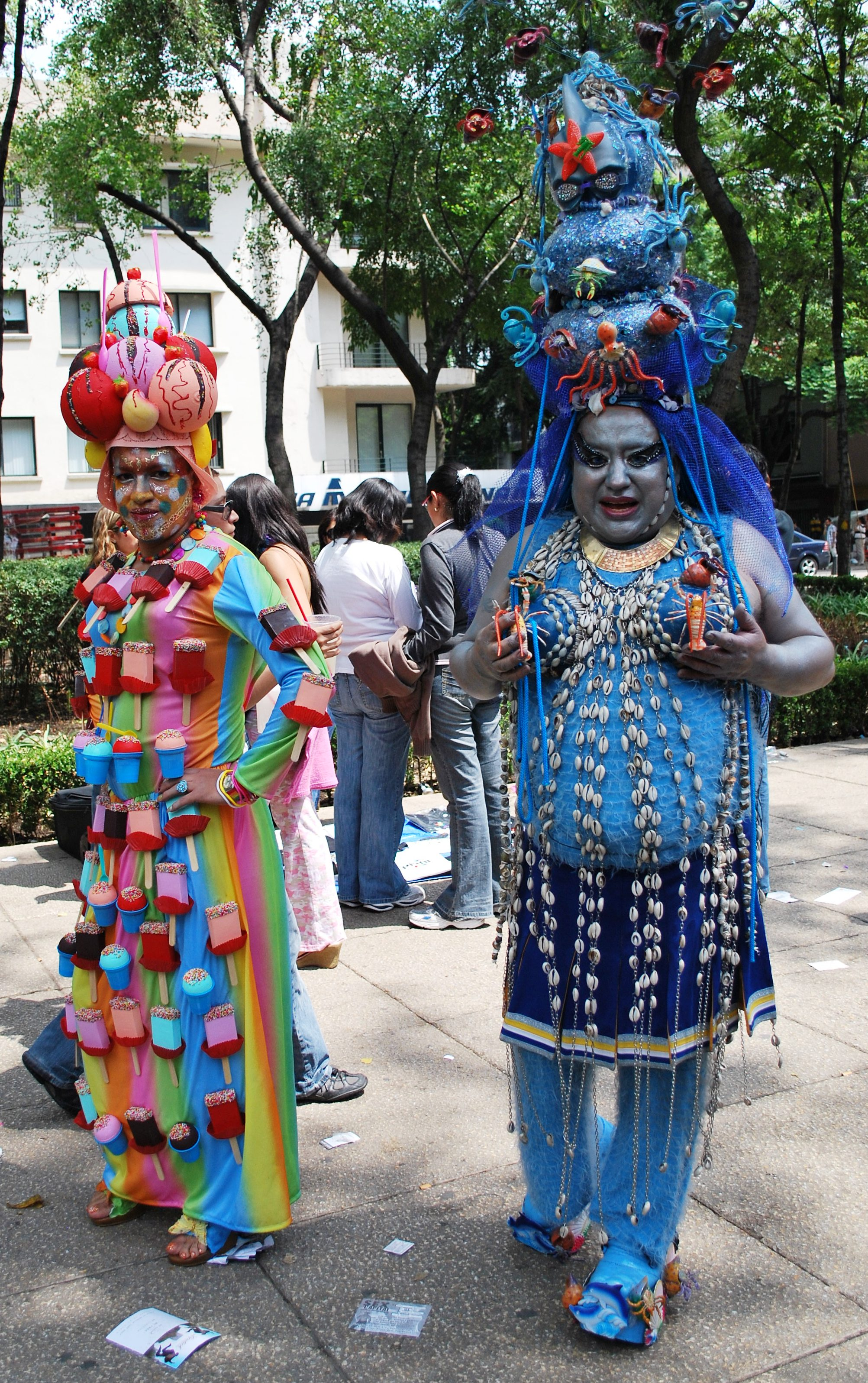 A couple of really wild costumes at the 2009 Marcha Gay in Mexico City